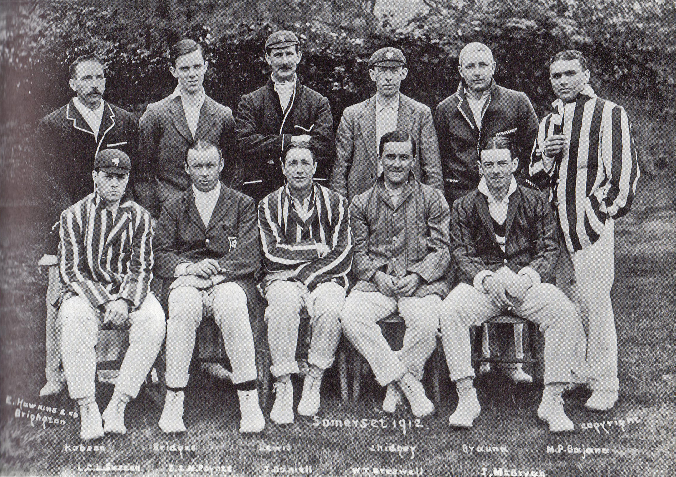 The Somerset County Cricket Club team photographed in 1912.